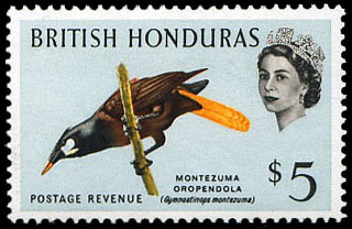 A 5 dollar stamp from British Honduras (now Belize) featuring the Montezuma oropendola